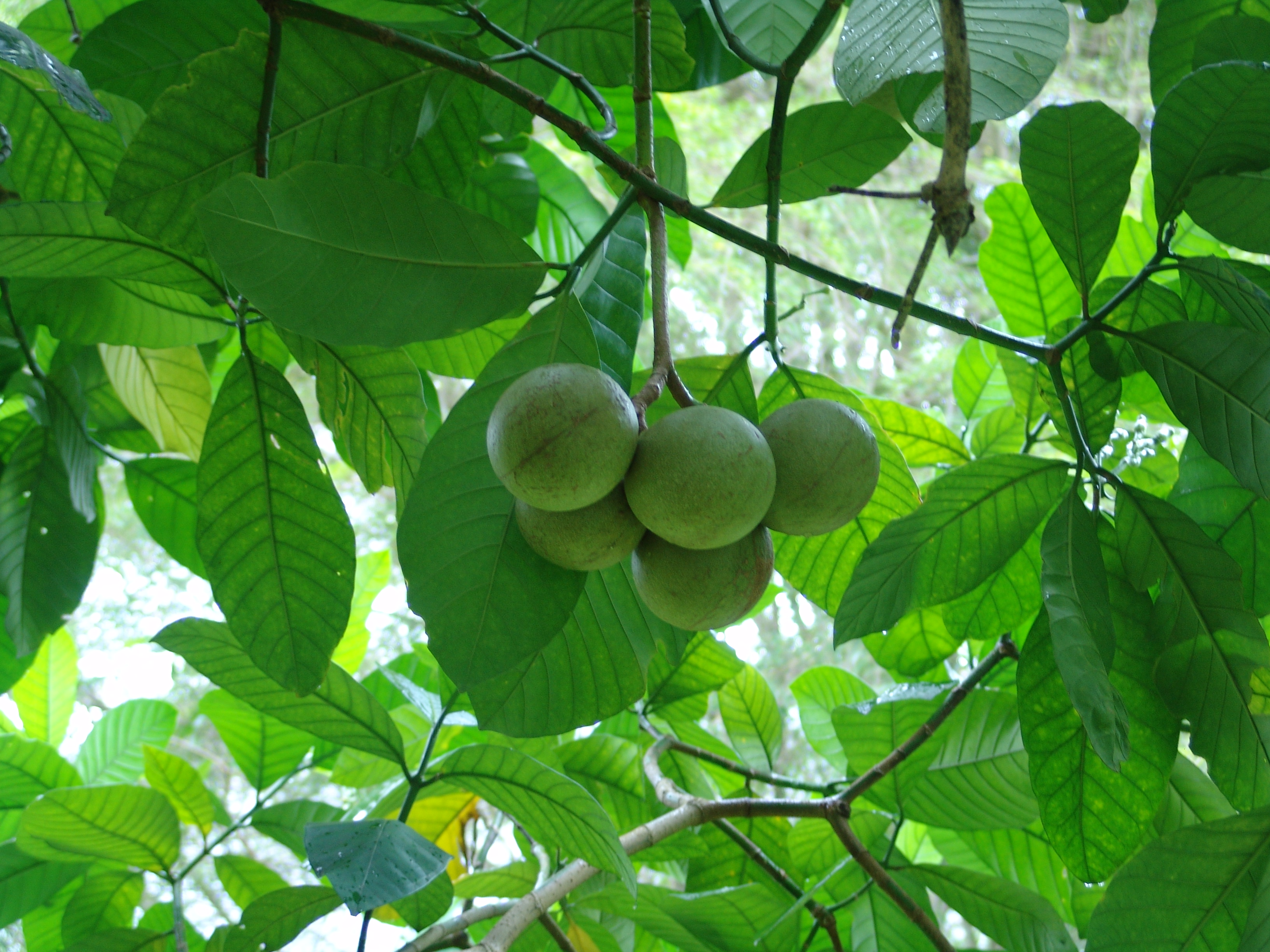 Ho'omaluhia Botanical Garden, Oahu, Hawaii